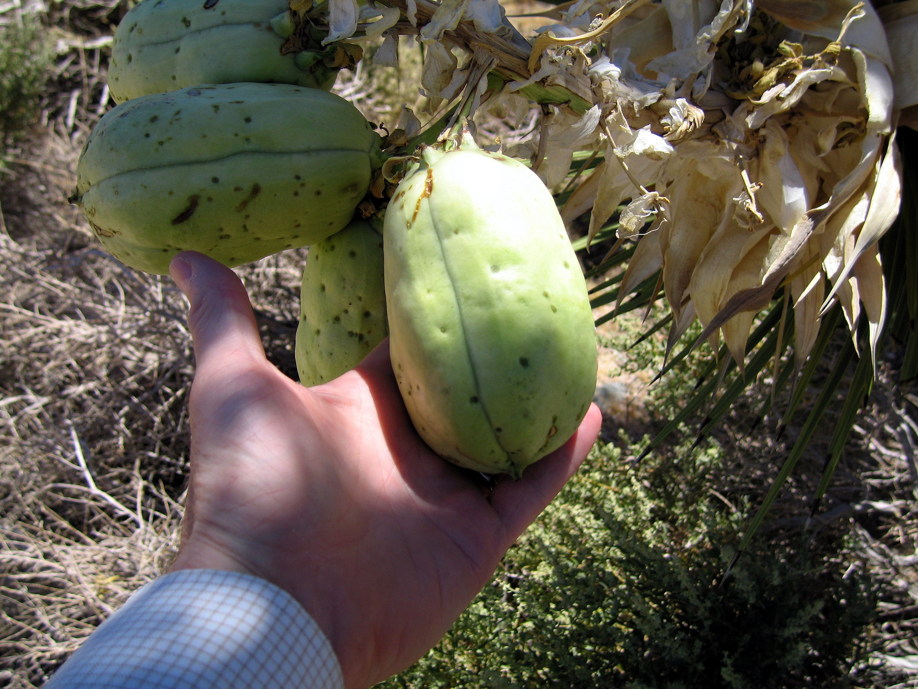 Joshua Tree (Yucca brevifolia) fruit.